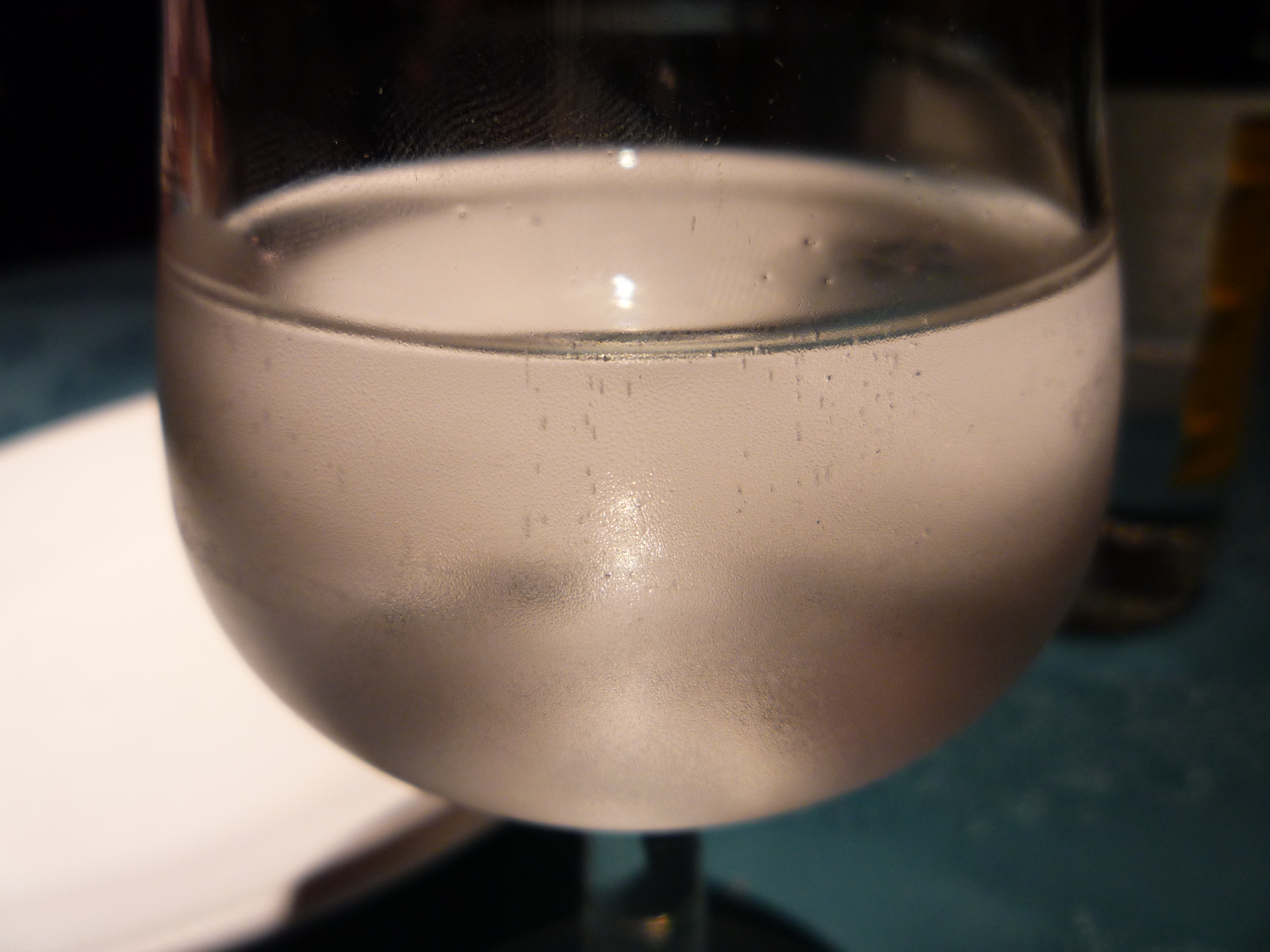 Glass of cold mineral water (Vichy Catalan brand).